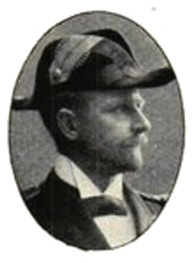 Portrait of the Swedish navy military Thorsten Nissen.